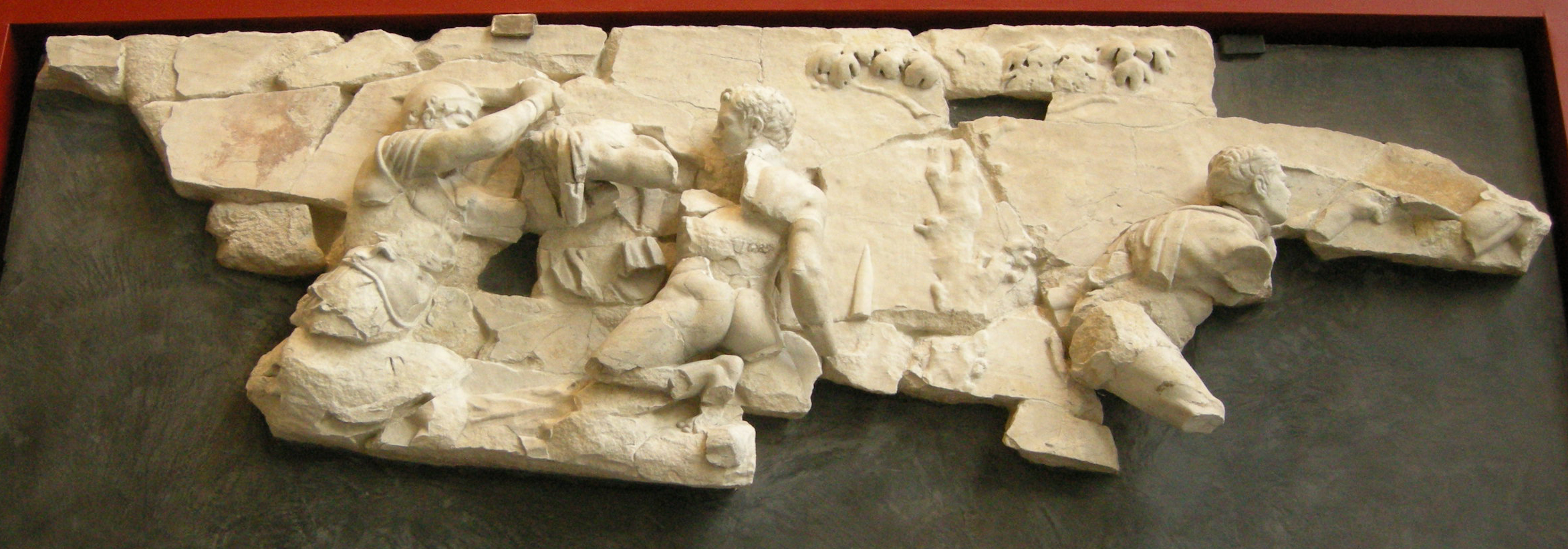 read filename pls